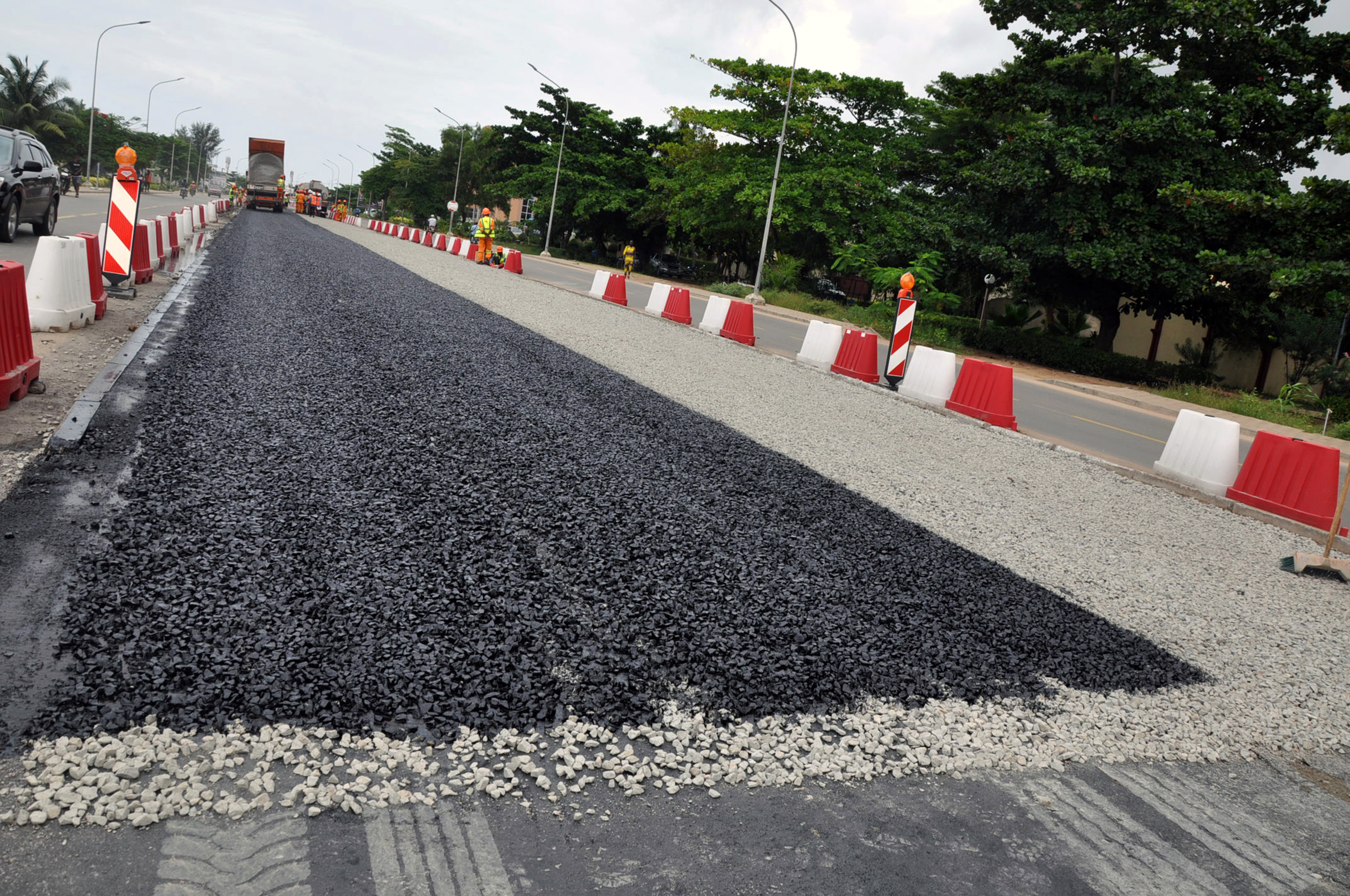 wide with eight vehicle passages, the roads of Benin challenge the major countries of the sub-region v This is an image with the theme "Africa on the Move or Transport" from: Benin